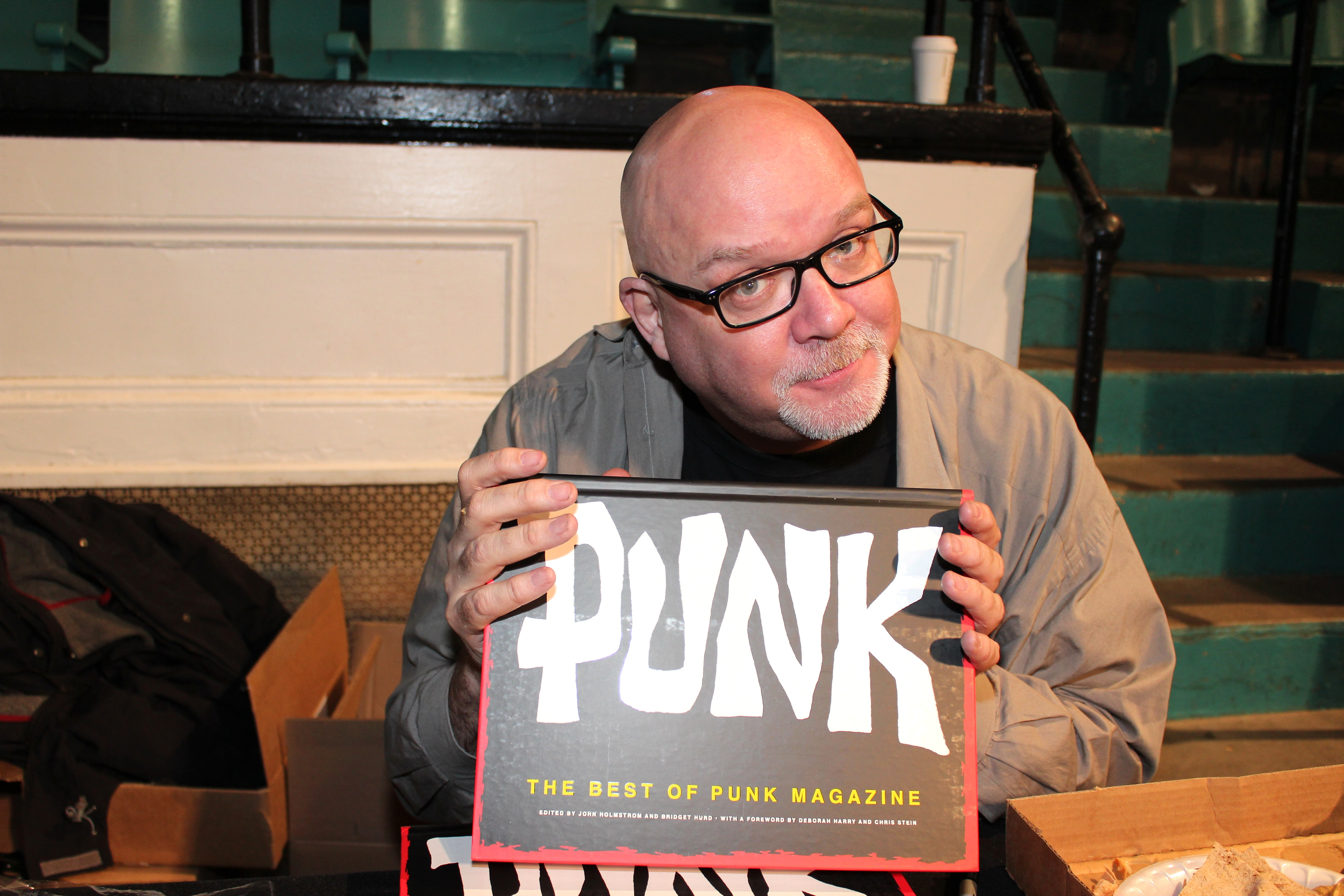 Holmstrom in 2013 at Asbury Park Comicon